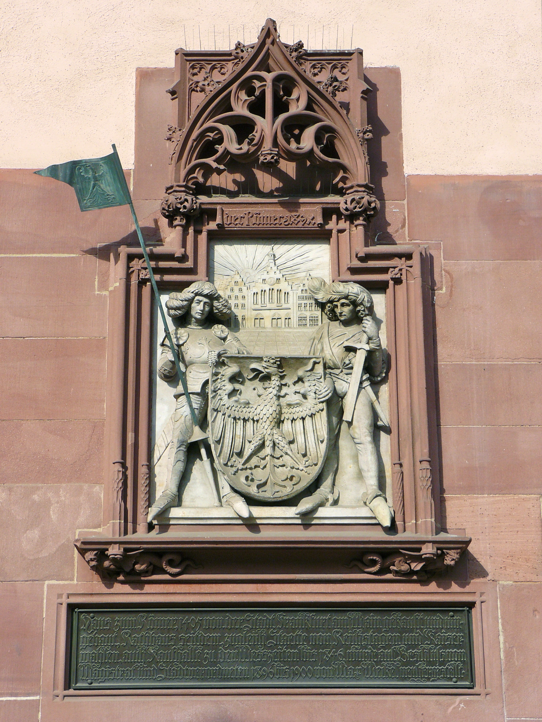 Wall Relief at city hall Römer with city arms (eagle) and ancient view of the city hall (1892)